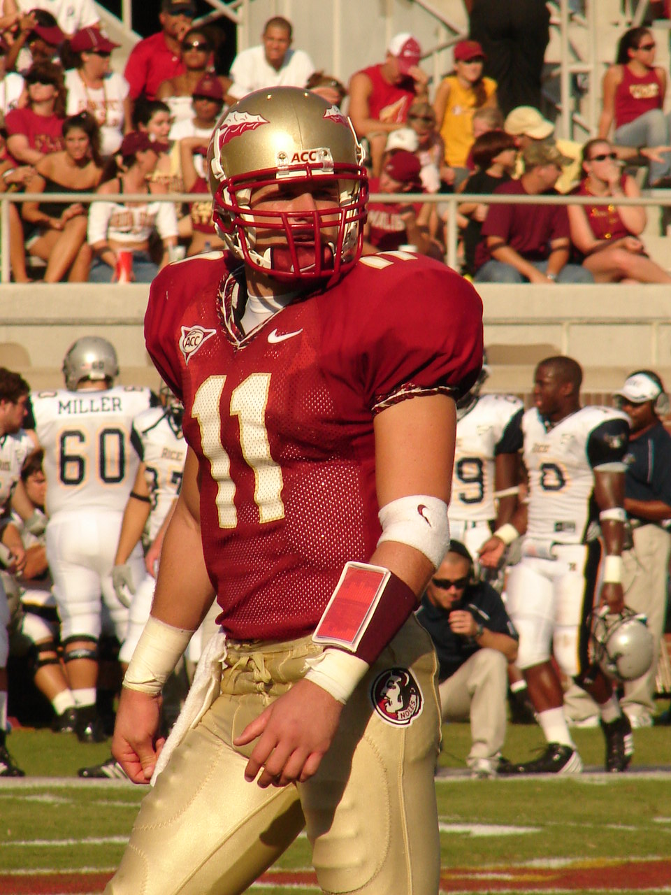 Drew Weatherford, quarterback, leading Florida State University vs Rice